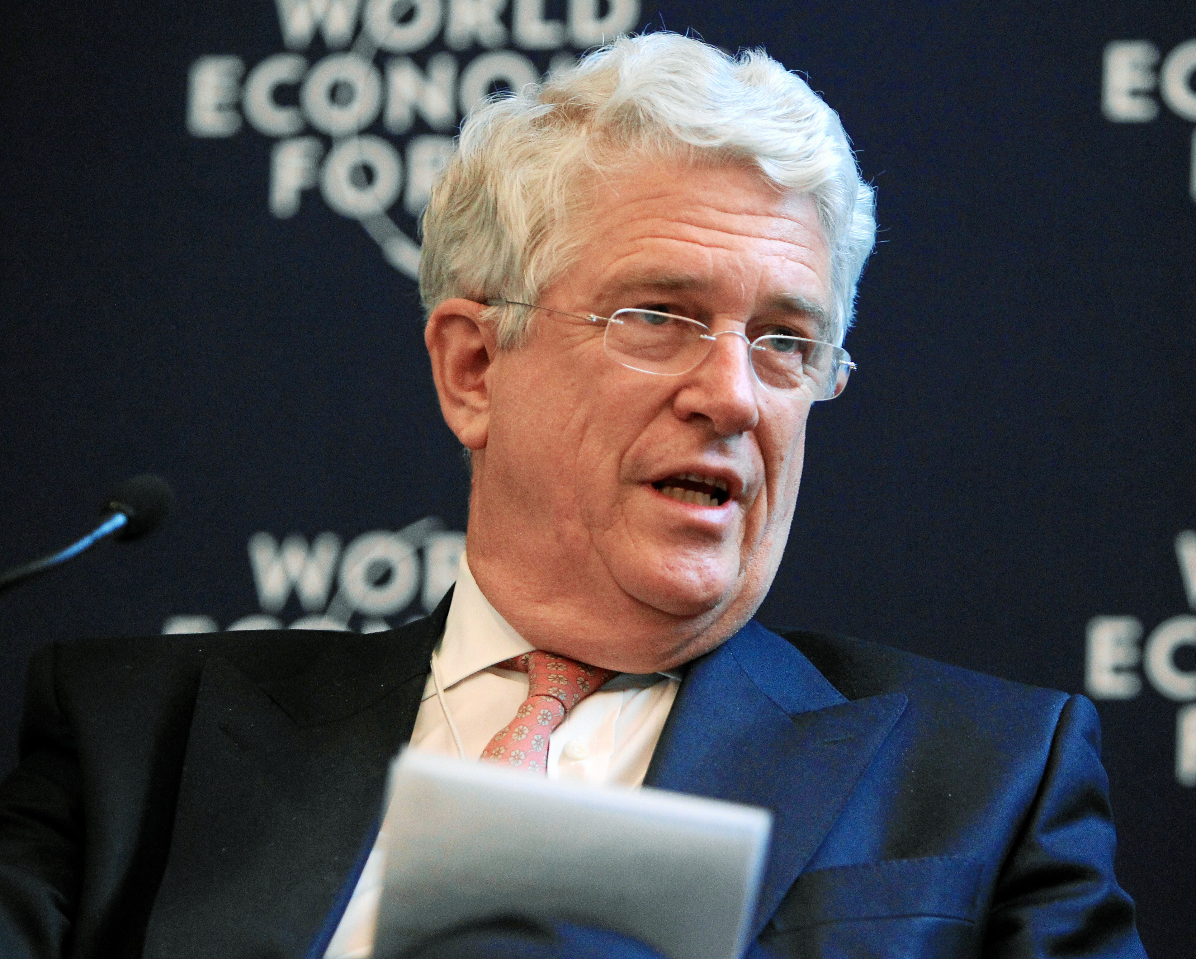 DAVOS/SWITZERLAND, 27JAN12 - Caio Koch-Weser, Vice-Chairman, Deutsche Bank Group, Deutsche Bank, United Kingdom; Global Agenda Council on Climate Change speaks during of the session 'Rio+20: Advancing Sustainable Development' at the Annual Meeting 2012 of the World Economic Forum at the congress centre in Davos, Switzerland, January 27, 2012.. . Copyright by World Economic Forum. by Sebastian Derungs